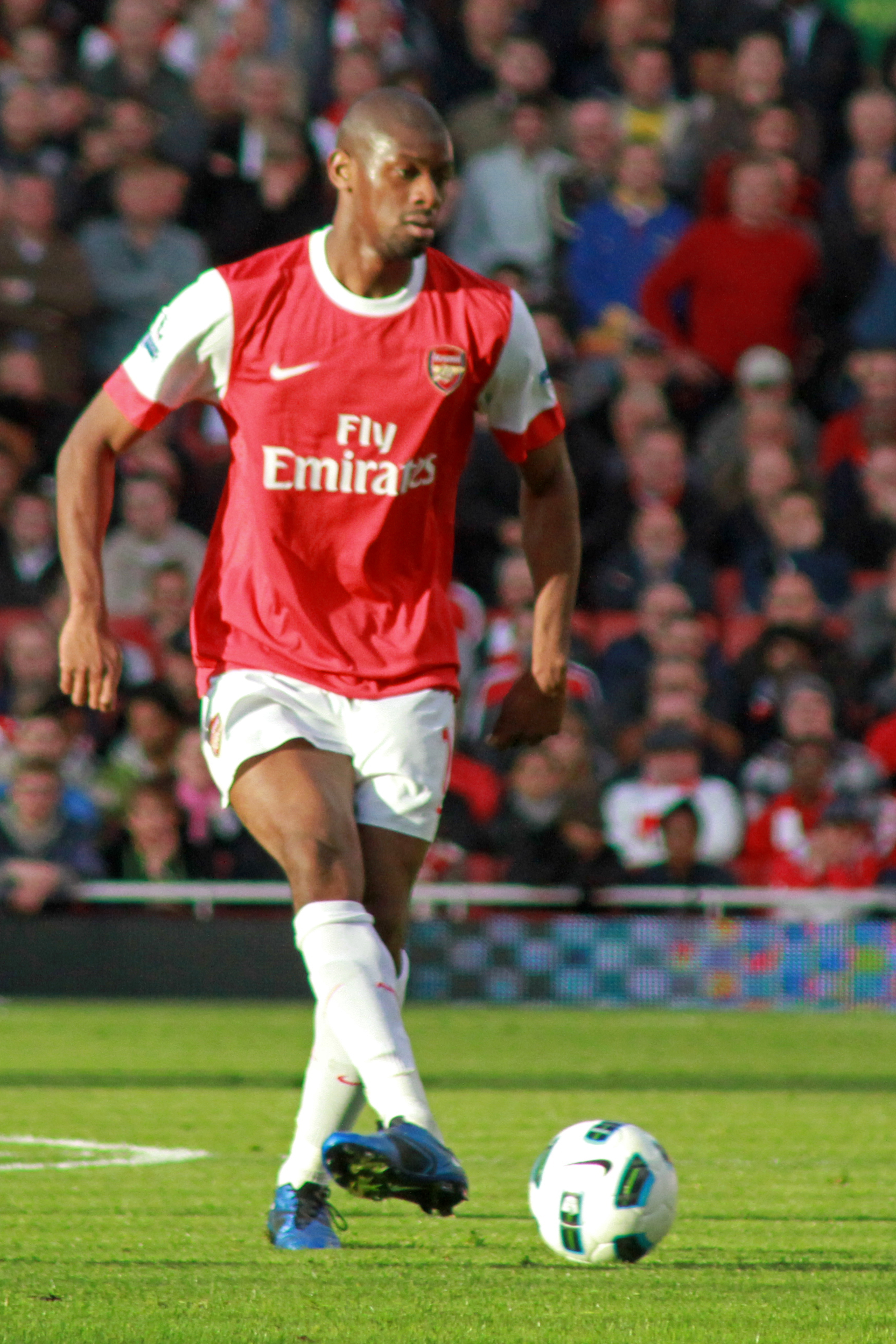 Arsenal v Birmingham City The Emirates 16 October 2010 (2-1)